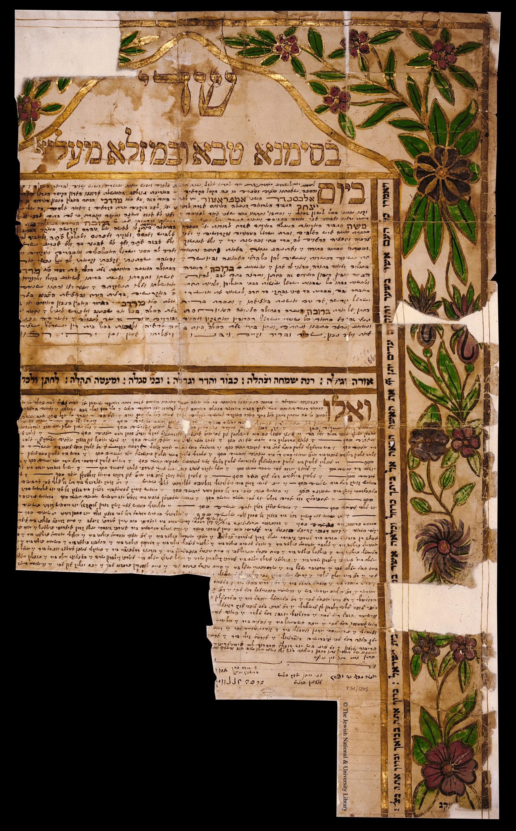 Ketubah from The Ketubot Collection of the National Library of Israel